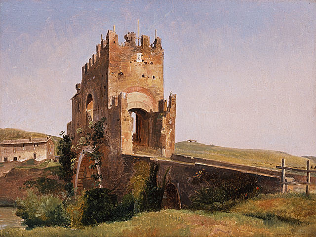 View of the Ponte Nomentano (Roman Campagna); Painting, Oil on paper laid onto canvas; size 41.28 x 50.8 x 3.81 cm (16 1/4 x 20 x 1 1/2 in); Current Location: Los Angeles County Museum of Art